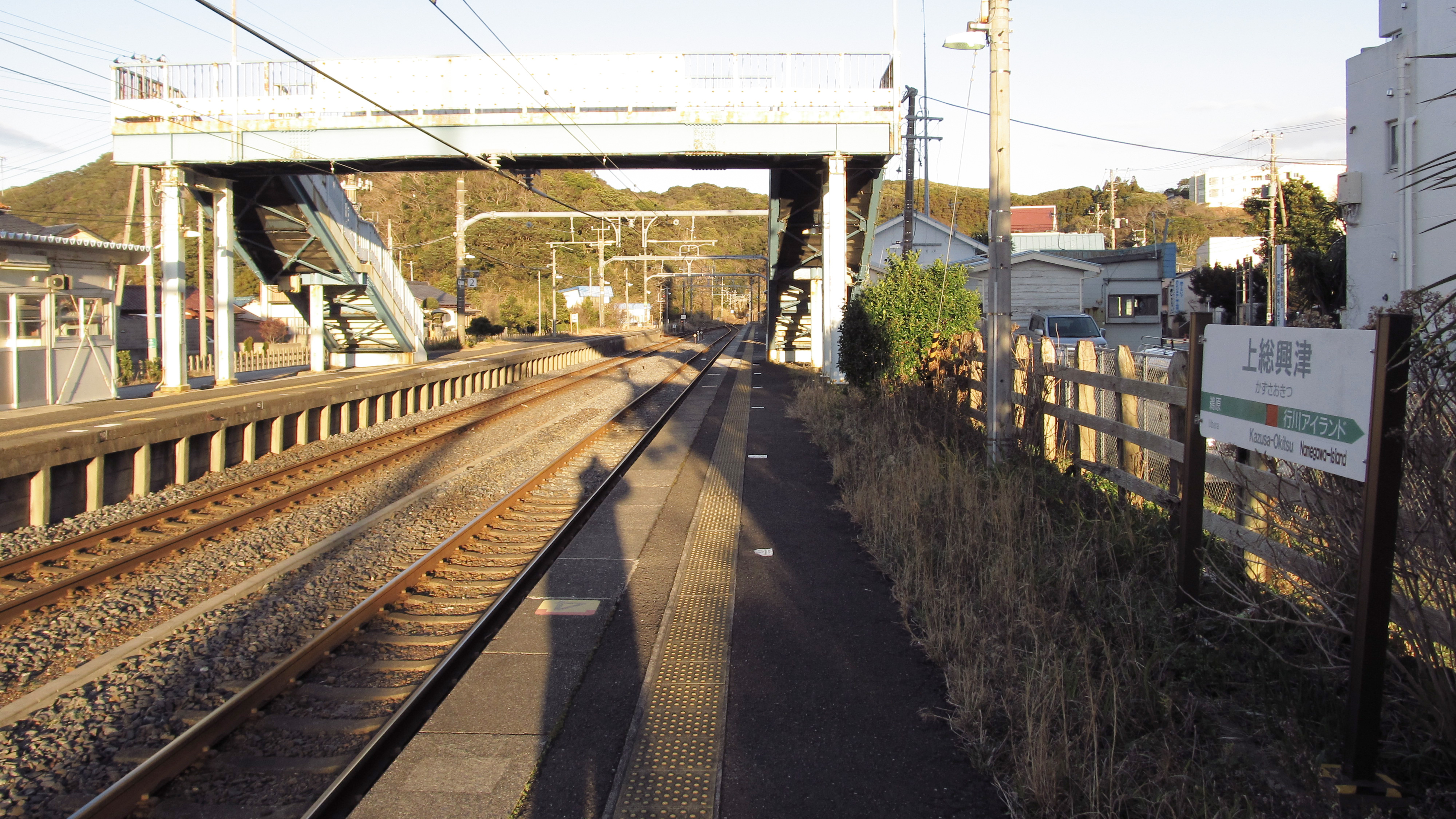 The platforms at Kazusa-Okitsu Station on the Sotobō Line in Katsuura city, Chiba prefecture, Japan